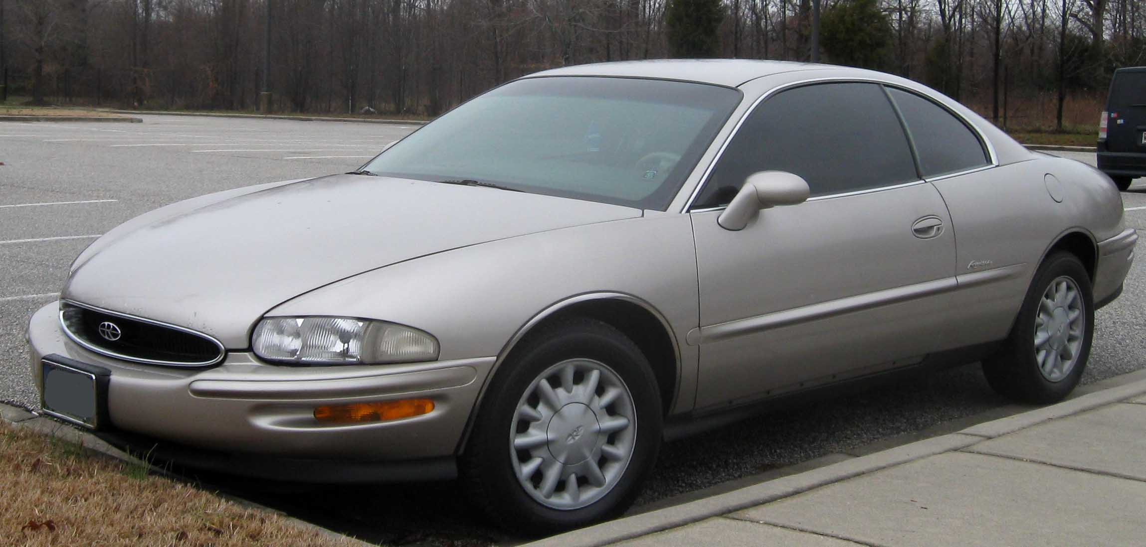 1995-1999 Buick Riviera photographed in Fort Washington, Maryland, USA.